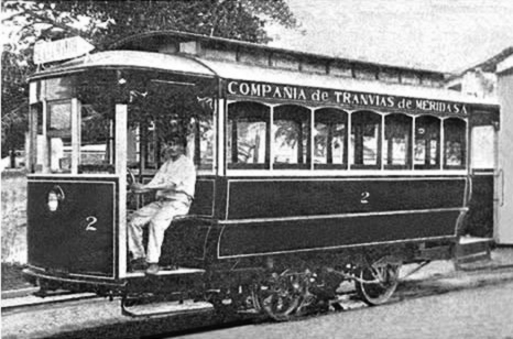 Gasoline driven tram No 2 of Compañía de Tranvías de Mérida, S.A.. One of the first single-end controlled trams built locally at Compañía de Tranvías de Mérida, S.A..